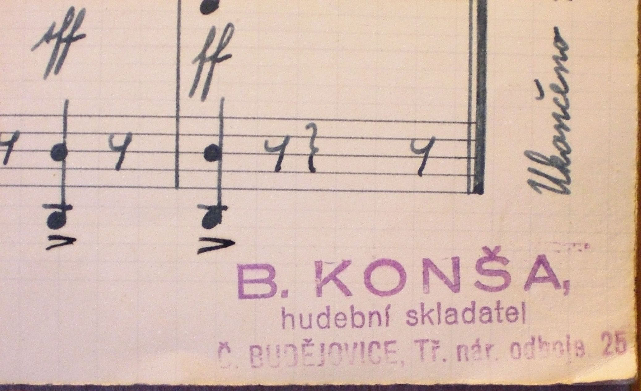 Signature stamp with the pseudonym of Bedřich Konša of Rudolf Kende, Czech composer from České Budějovice